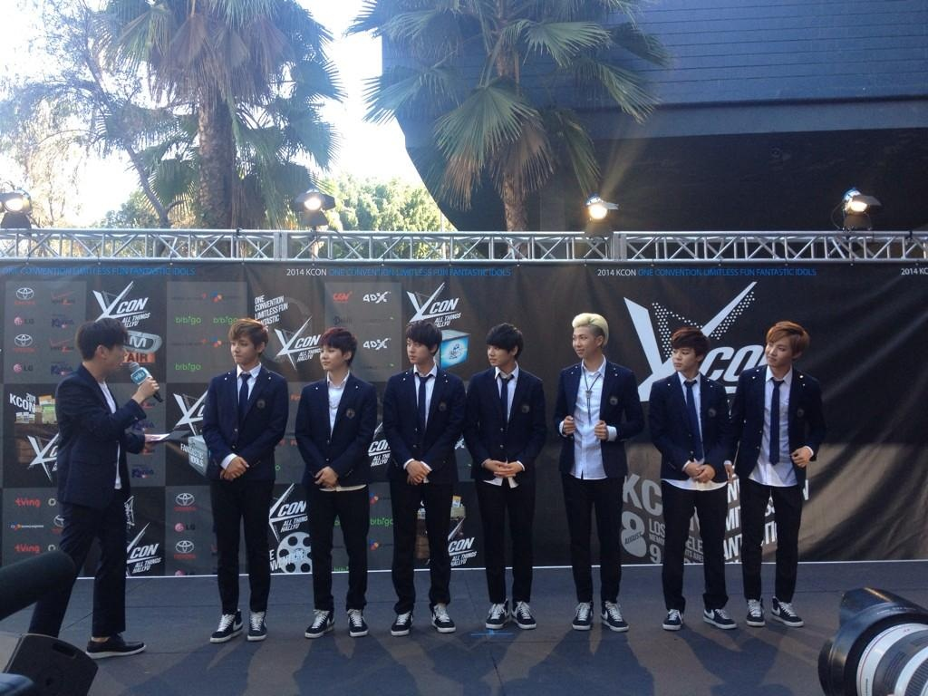 KCON music festival 2014, red carpet, BTS.